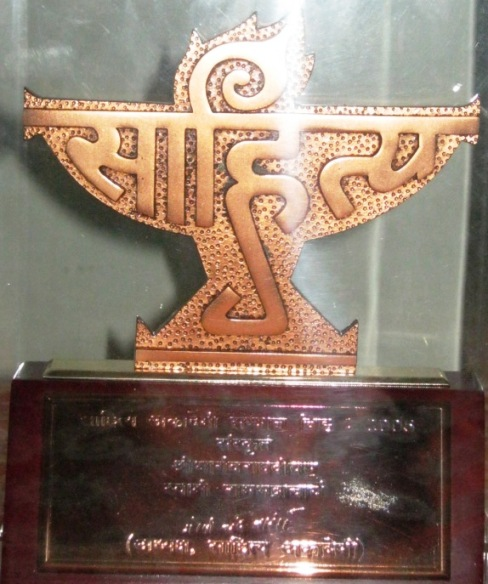 Sahitya Academy Award received by Hindu religious leader Rambhadracharya